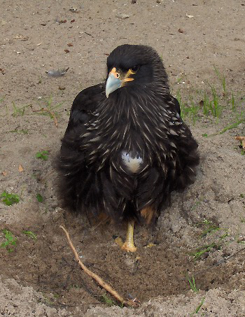 Species Phalcoboenus australis Family Falconidae